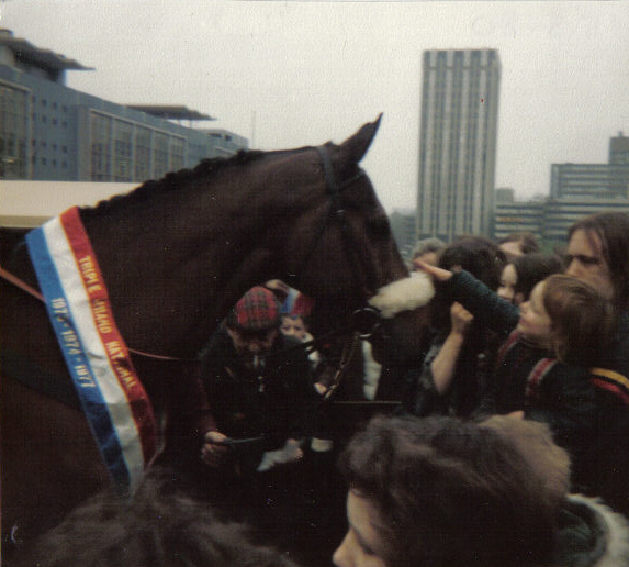 Winner of the Grand National in 1973, 1974 and 1977, the UK's best known and most loved racehorse is pictured with fans on a visit to Bristol at Castle Park on March 15th 1980. In the background on the left is Fairfax House (demolished 1988), and the tall office block in the distance is Castlemead.